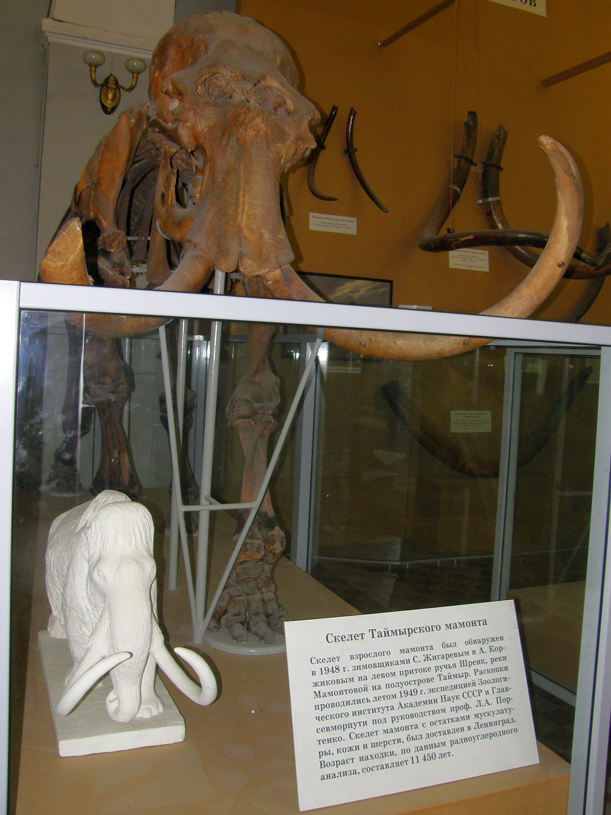 Mammuthus primigenius